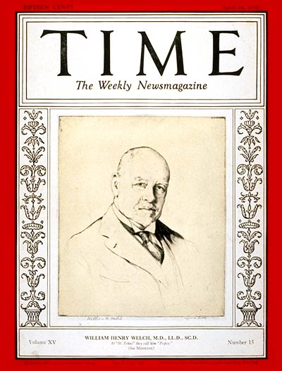 Time Apr 14, 1930 cover showing William H. Welch